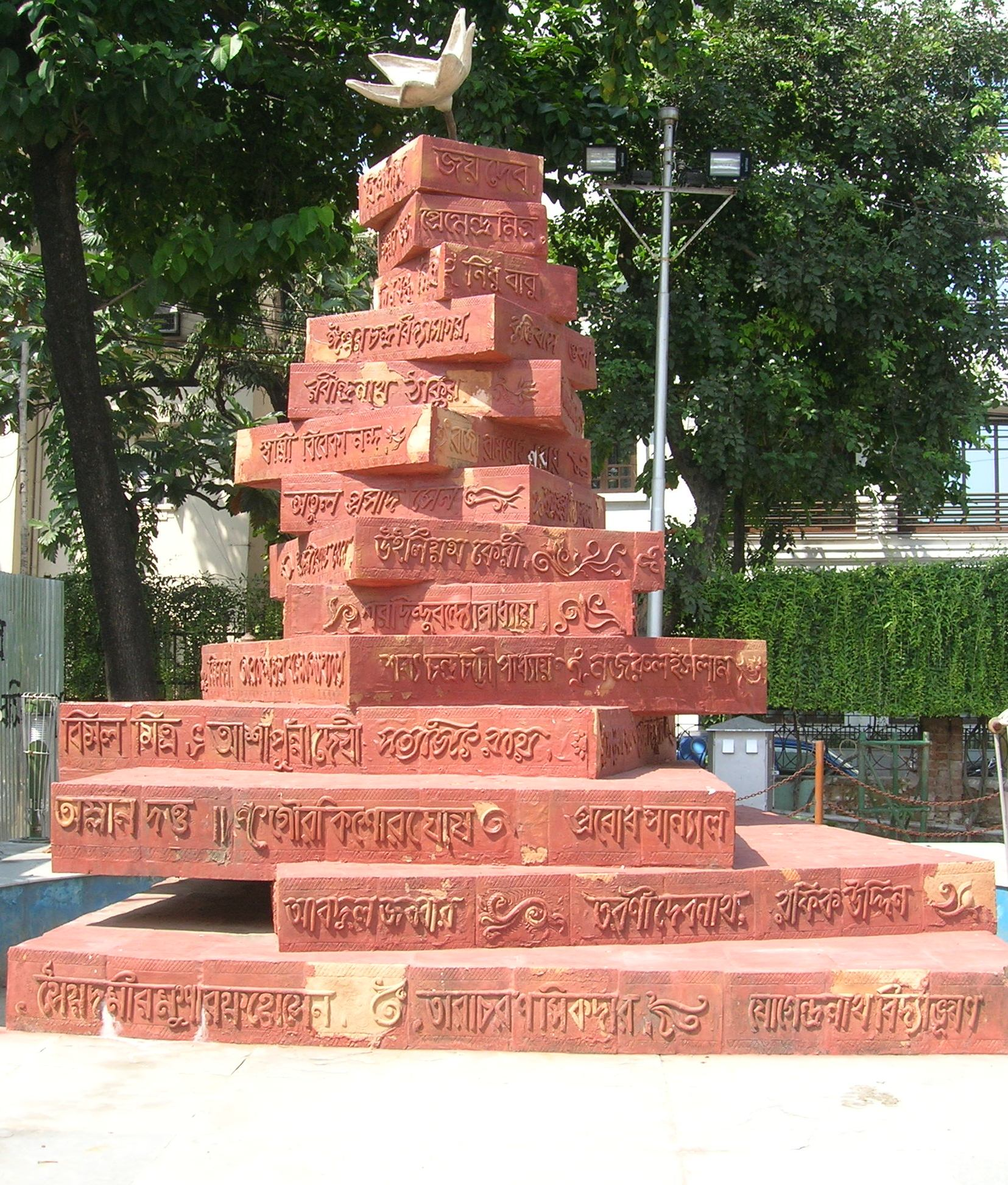 Bhasha Smritistambha (Language Monument) in Kolkata, commemorates thousand years of Bengali language and literature.